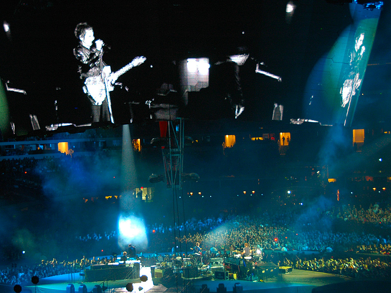 Muse as support-act for the 360° Tour of U2.